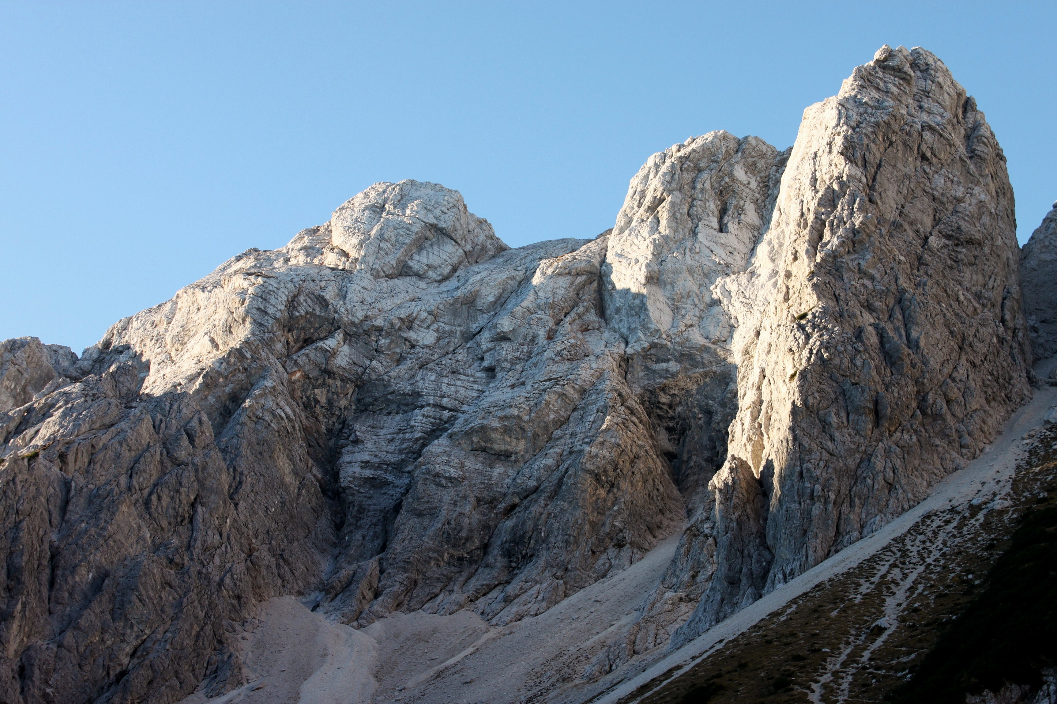 Turska gora north face above Okrešelj